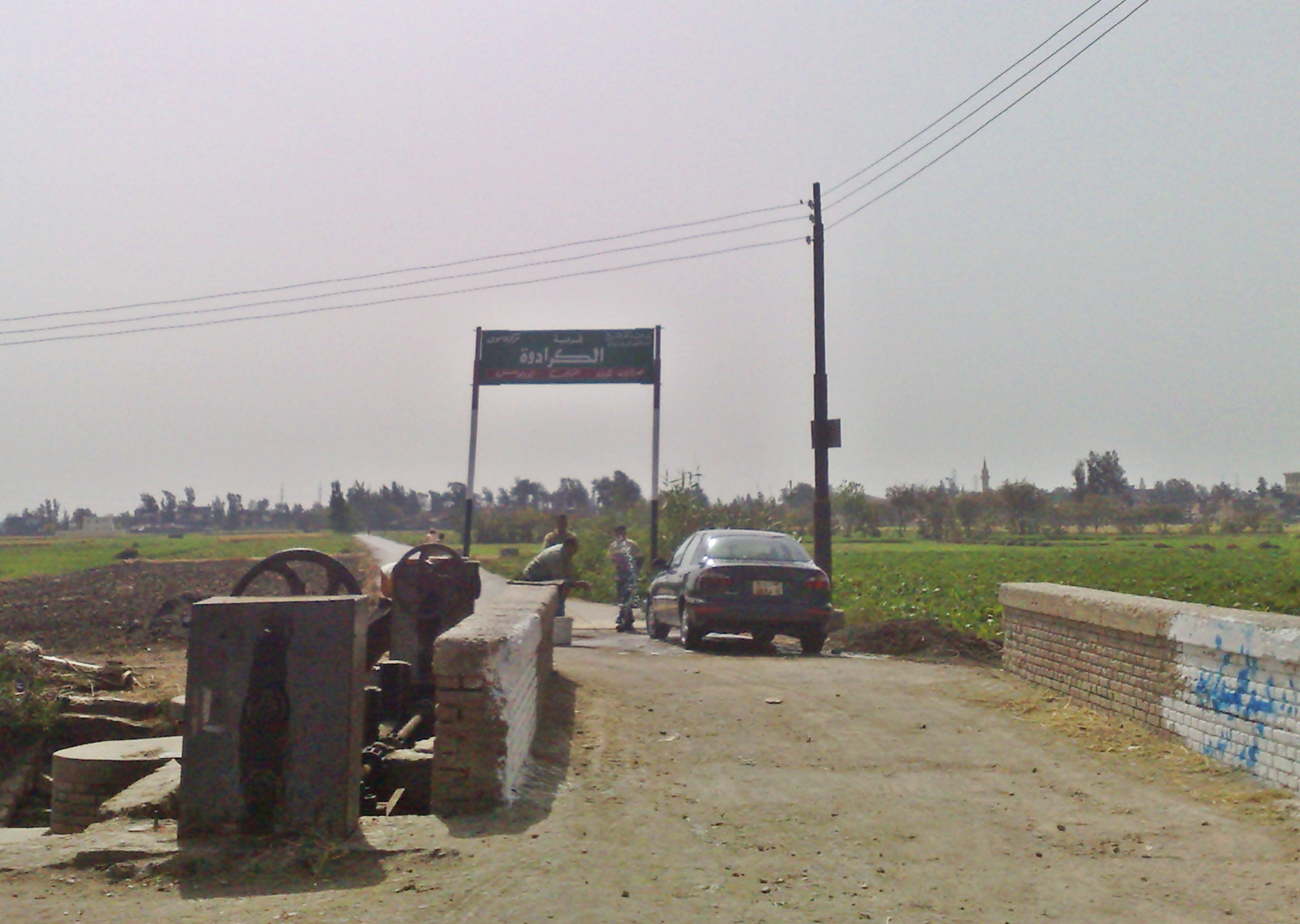 El-Karadwa Village, Desouk